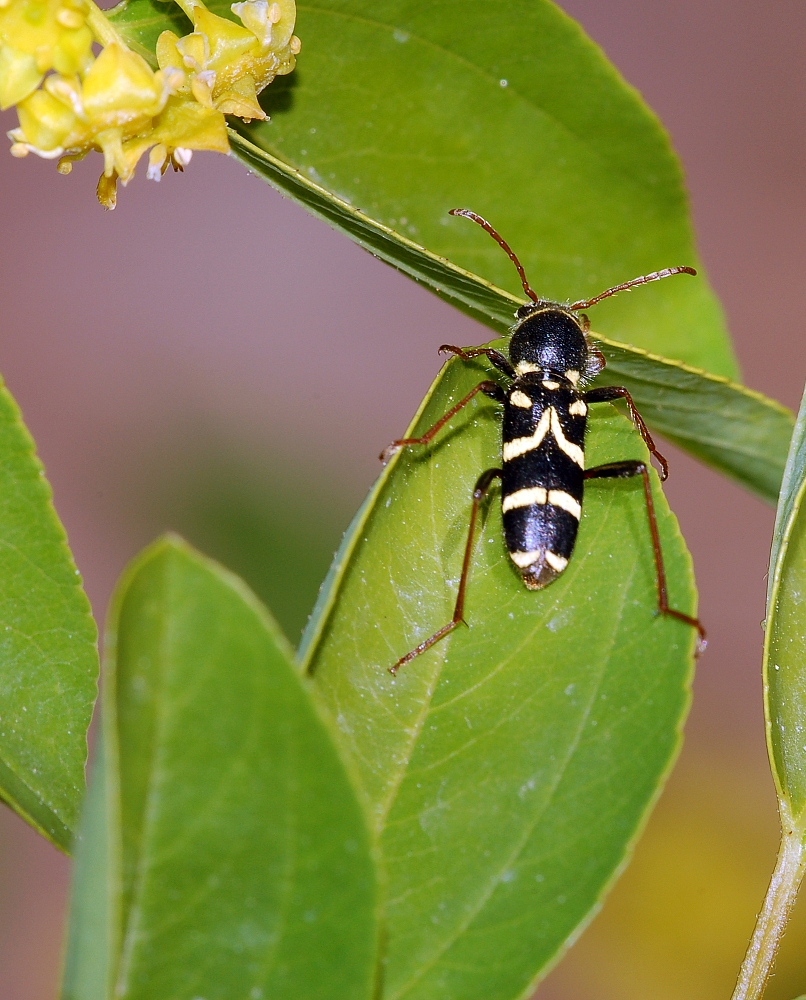 Longhorn beetle (Clytus rhamni) on Christ's Thorn (Paliurus spina-christi), Frouzet, Languedoc-Roussillon, France